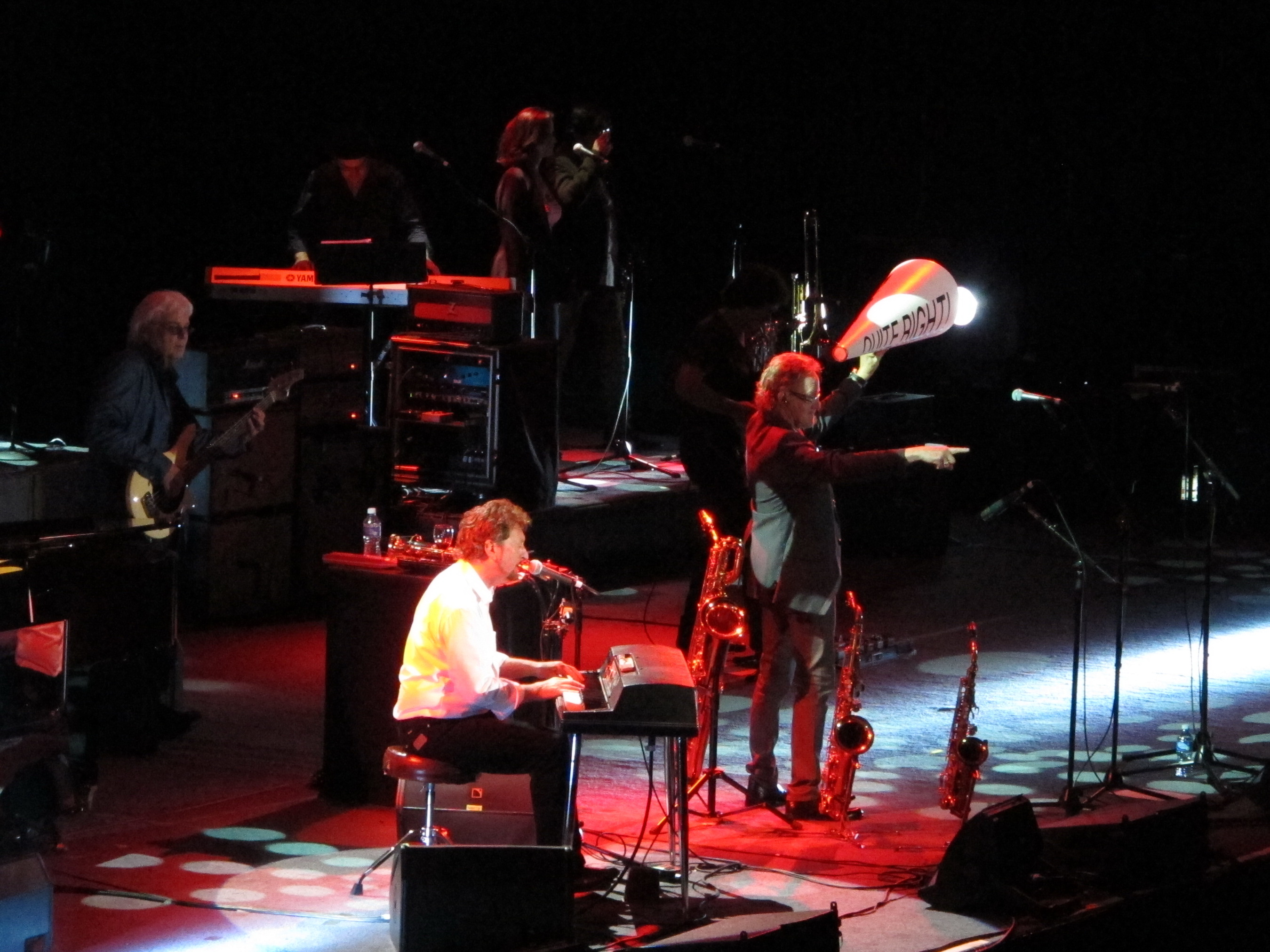 Supertramp performing at the Save-On-Foods Memorial Centre.